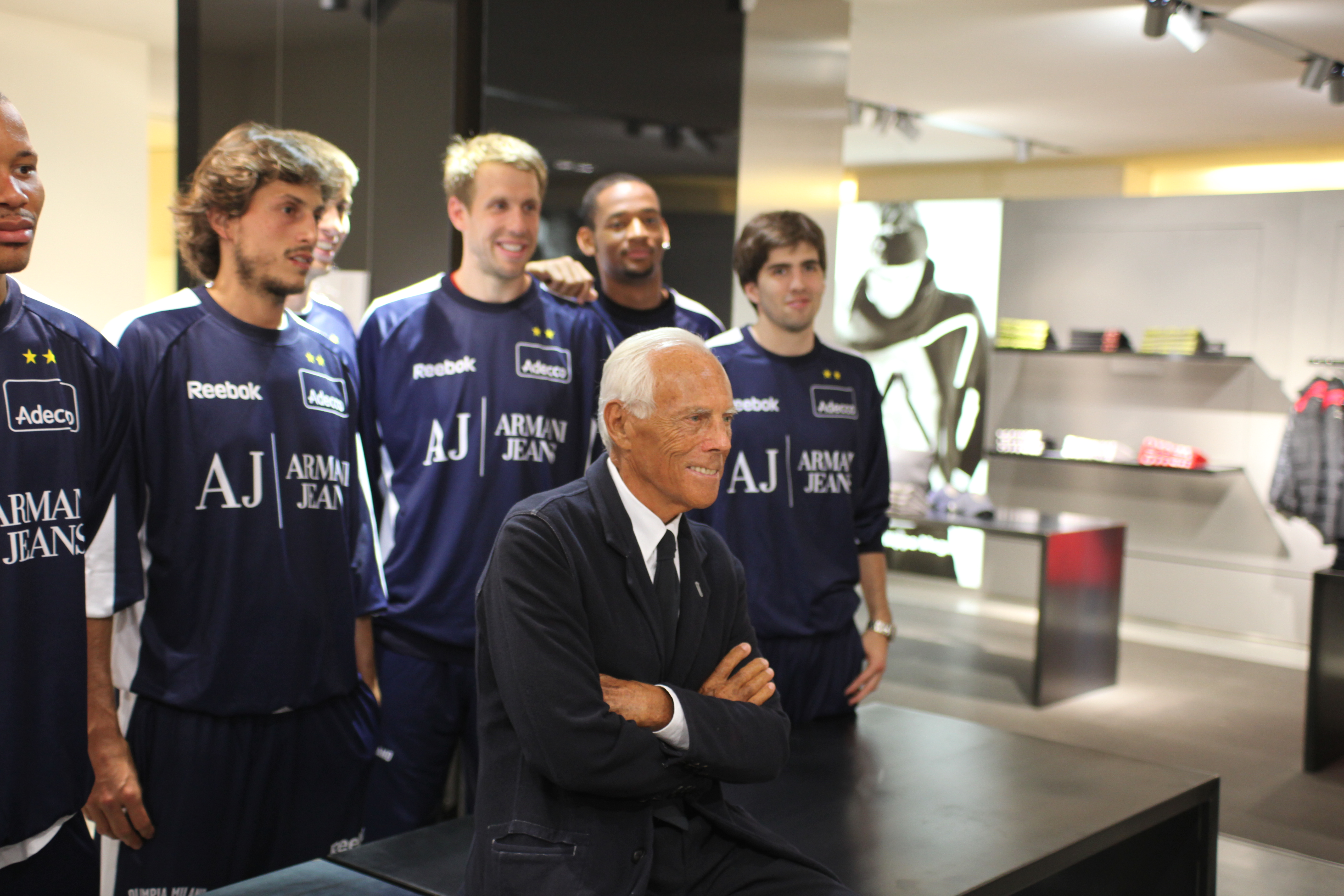 Vogue Fashion's Night Out Sept.10 2009 MILANO